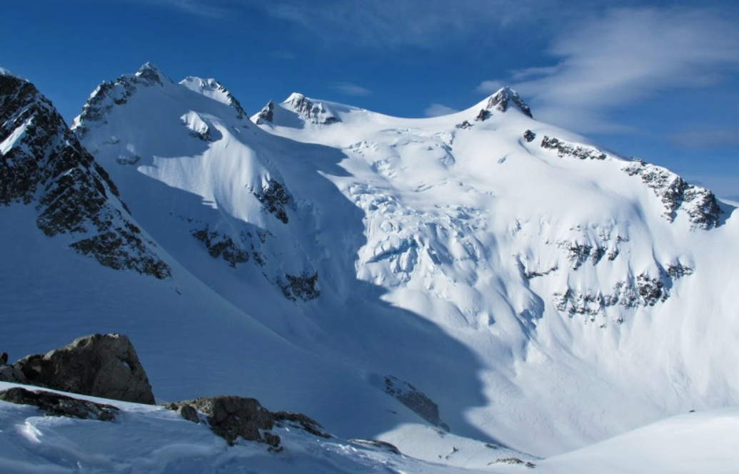 left to rightː Mt. Fitzsimmons, Mt. Benvolio, Overlord Mountain